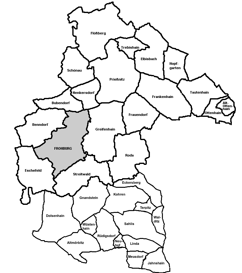 Map of Frohburg and its districts 2018